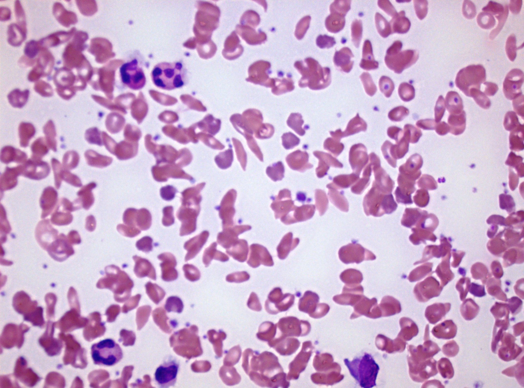 Sickle Cell Anemia / Sickle Cell Disease